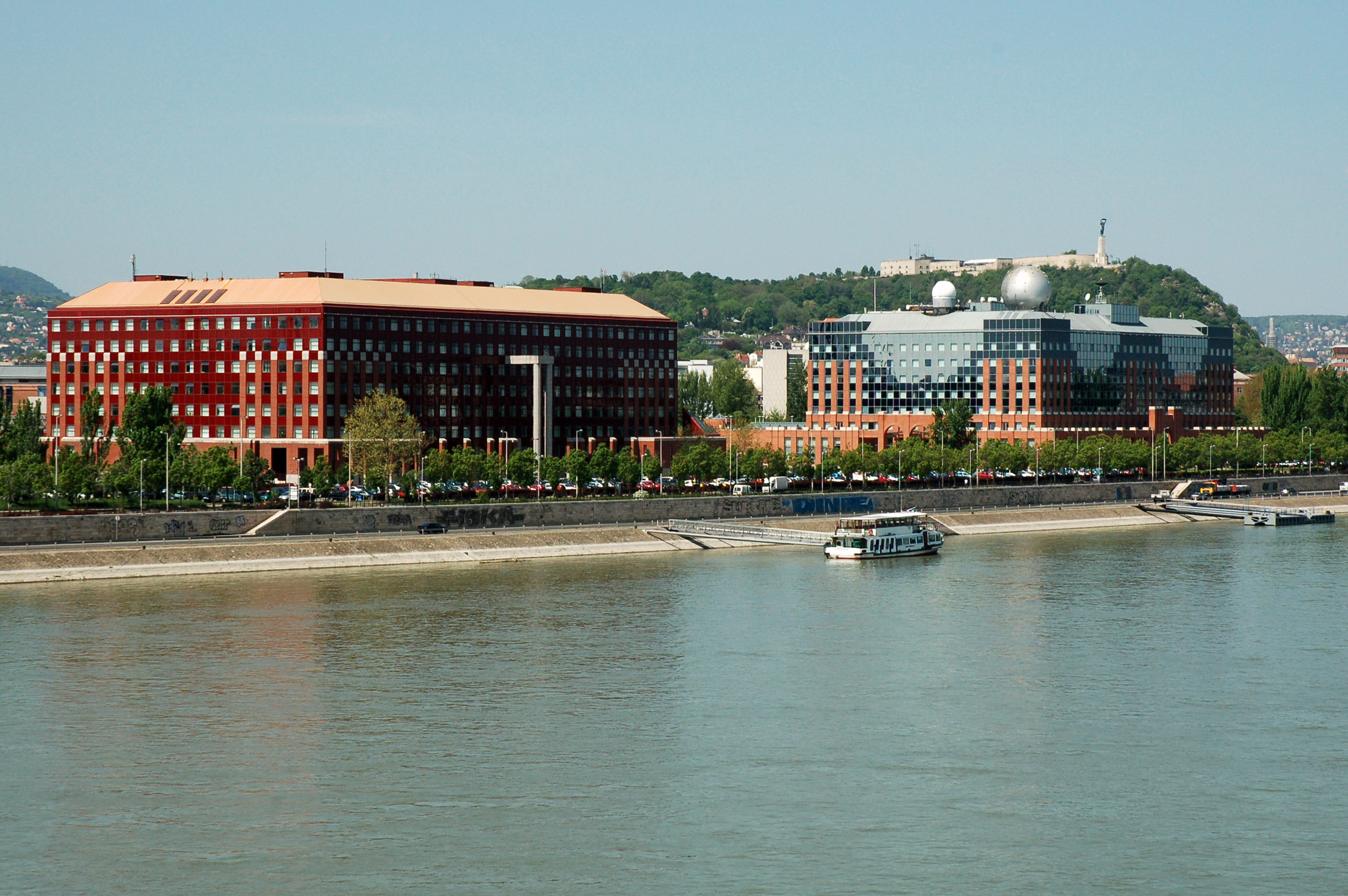 Lágymányosi Campus, Eötvös Loránd University, Budapest